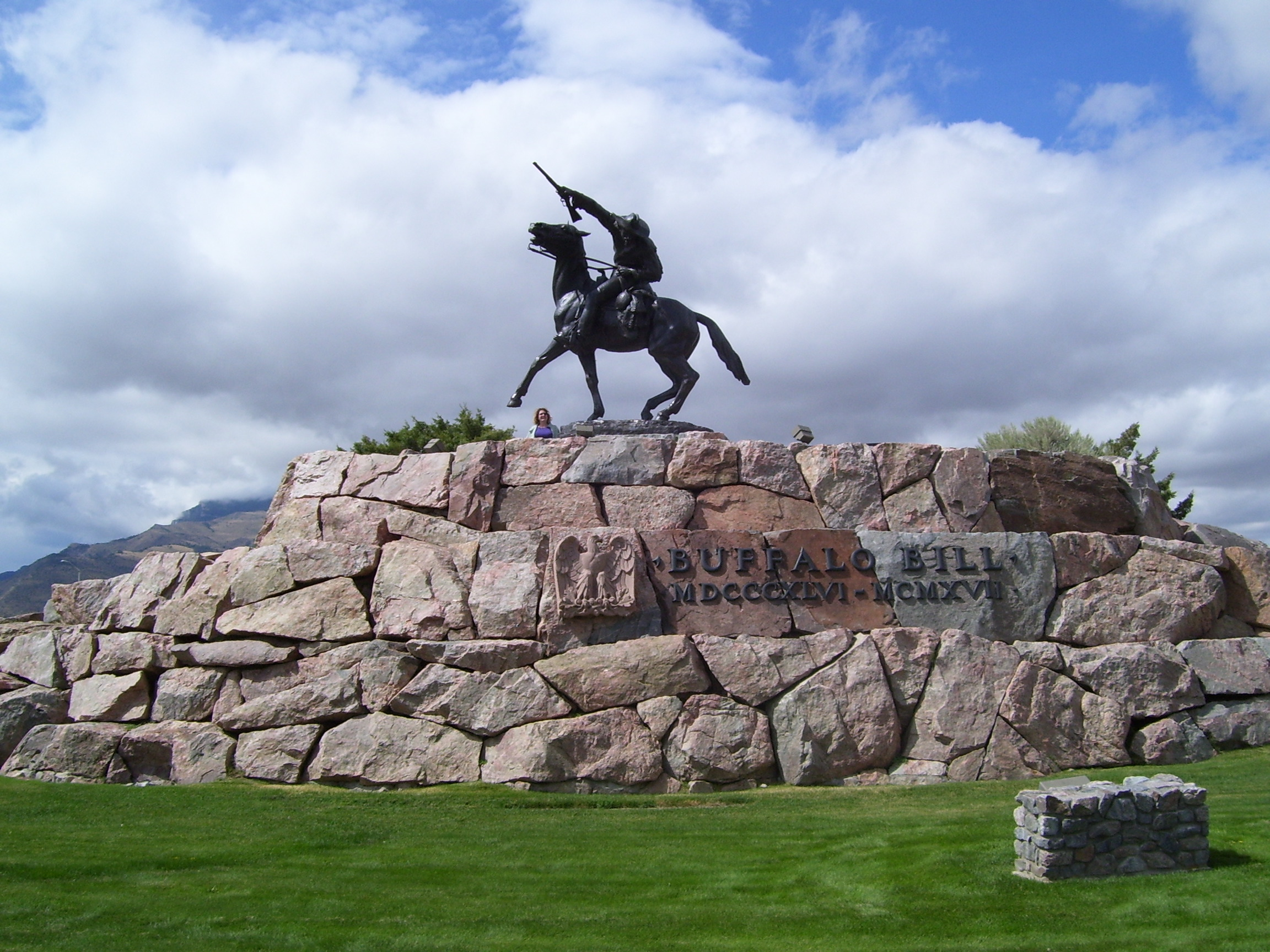 This is my 2008 photo of "The Scout" sculpture by Gertrude Vanderbilt Whitney in COdy, Wyoming.